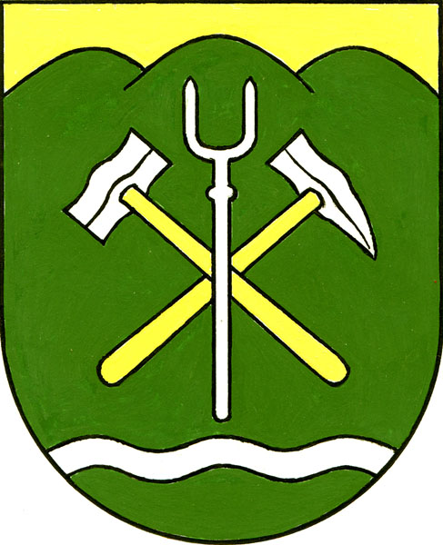 Coat of amrs of Podlesí , District Příbram, Czech Republic